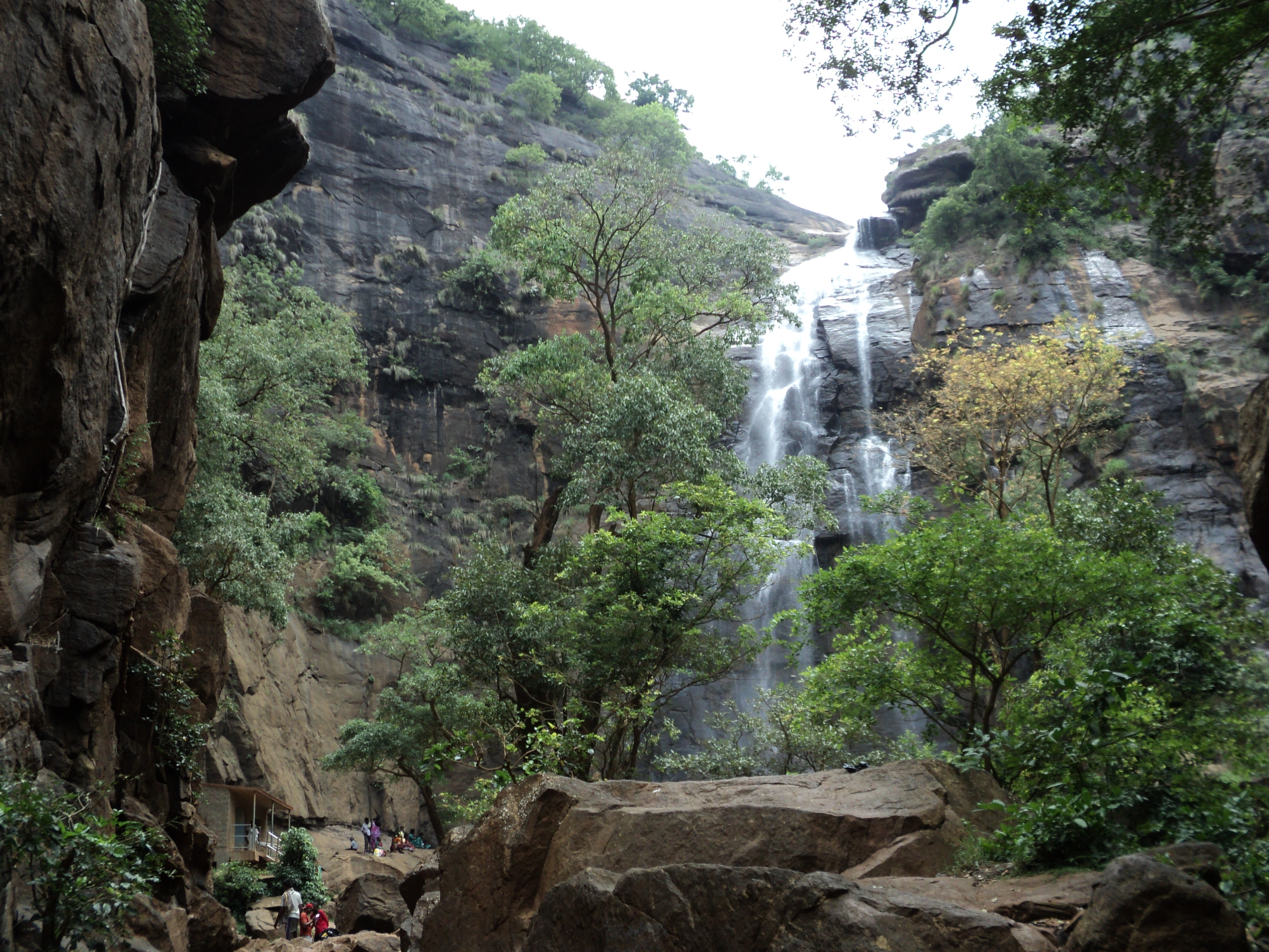 One of the main attractions in Kolli Hills is this Water falls.